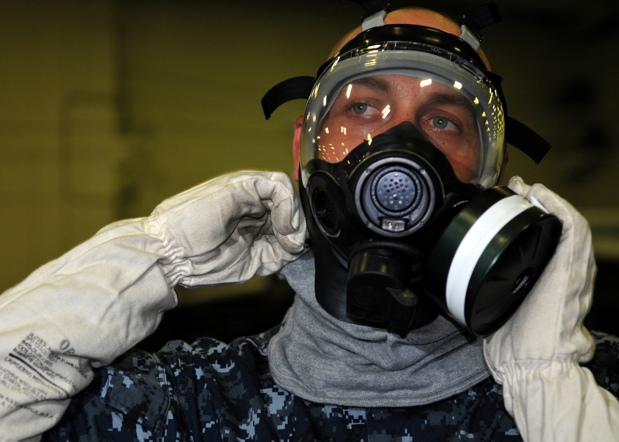 ATLANTIC OCEAN (Sept. 25, 2010) Yeoman Seaman Michael Barnes, assigned to the administration department of the aircraft carrier USS George H.W. Bush (CVN 77), dons a MCU-2P gas mask during a chemical, biological, and radiological (CBR) drill in the ship's hangar bay. This is the first time the crew of George H.W. Bush has trained for a CBR attack. (U.S. Navy photo by Mass Communication Specialist 3rd Class Tony Curtis/Released)